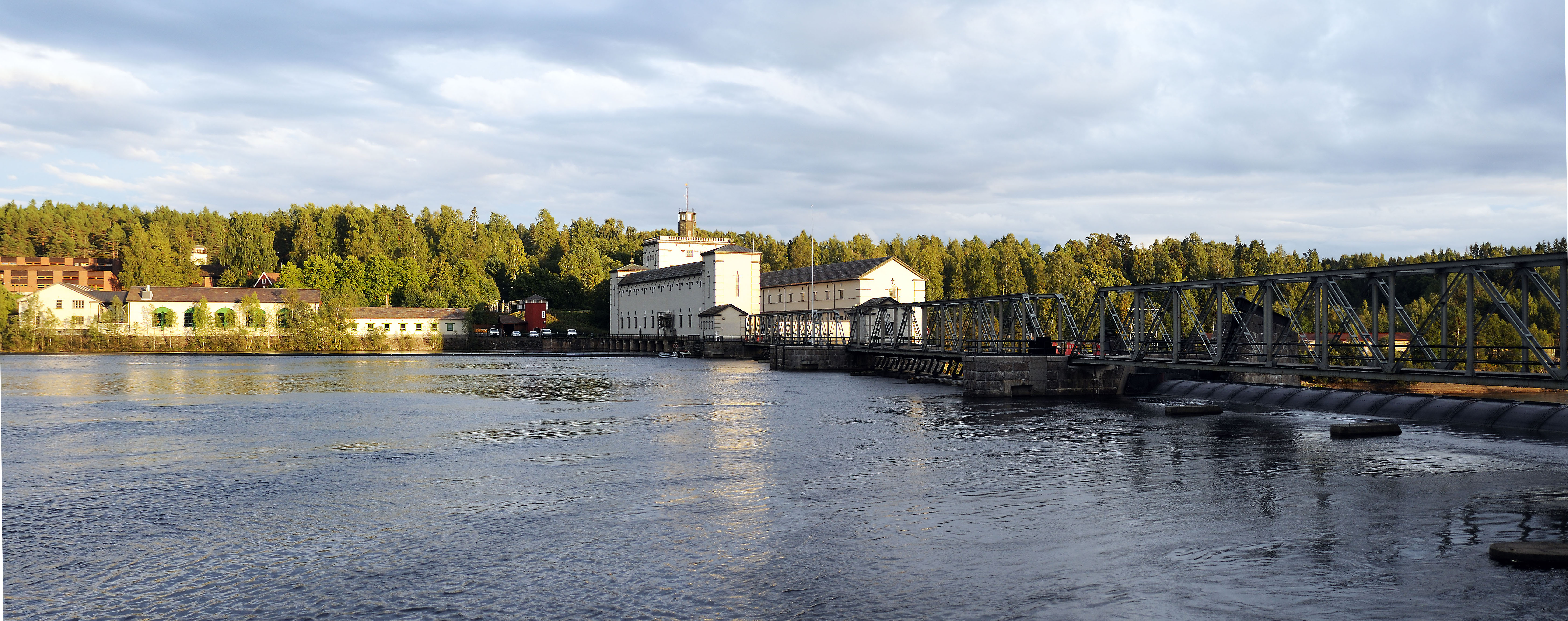 Image of Rånåsfoss kraftstasjon from above.